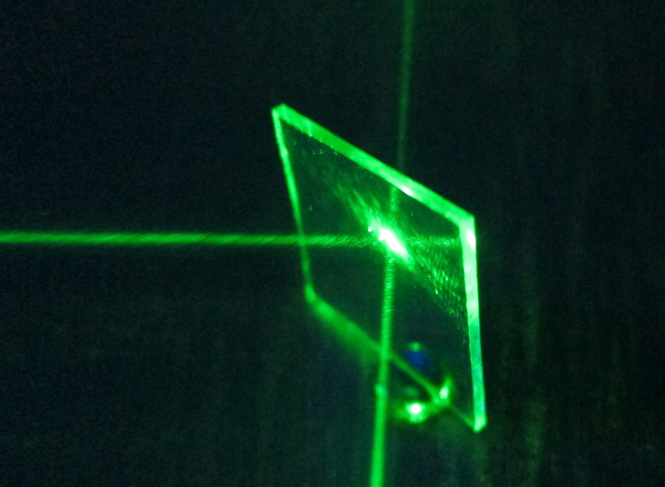 An aluminum coated beamsplitter, designed to be 80% reflective.